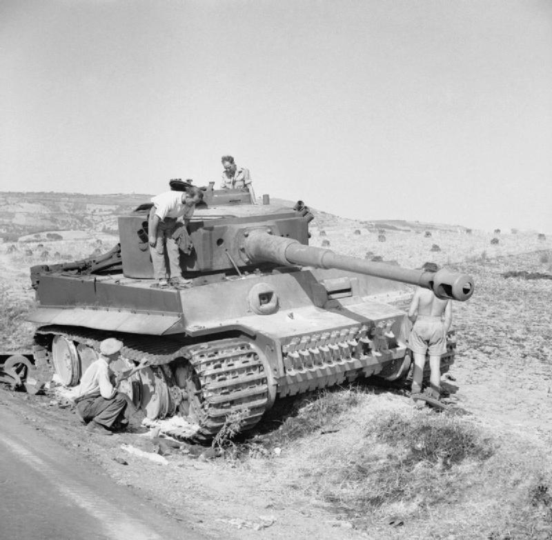 The British Army in Sicily 1943 British troops and local civilians examine a knocked-out German PzKpfw VI Tiger tank, 19 July 1943.